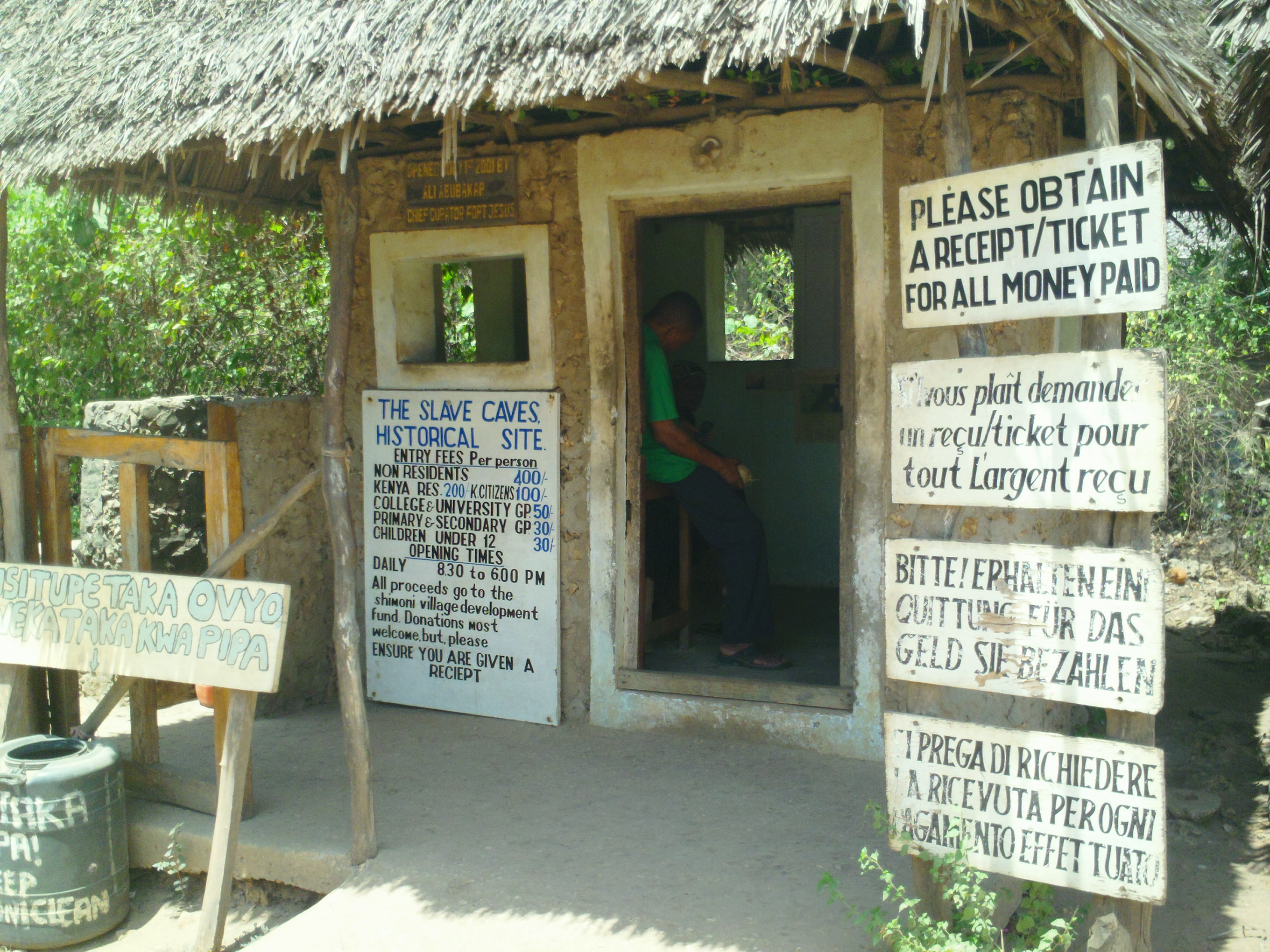 The Shimoni Slave Caves office.